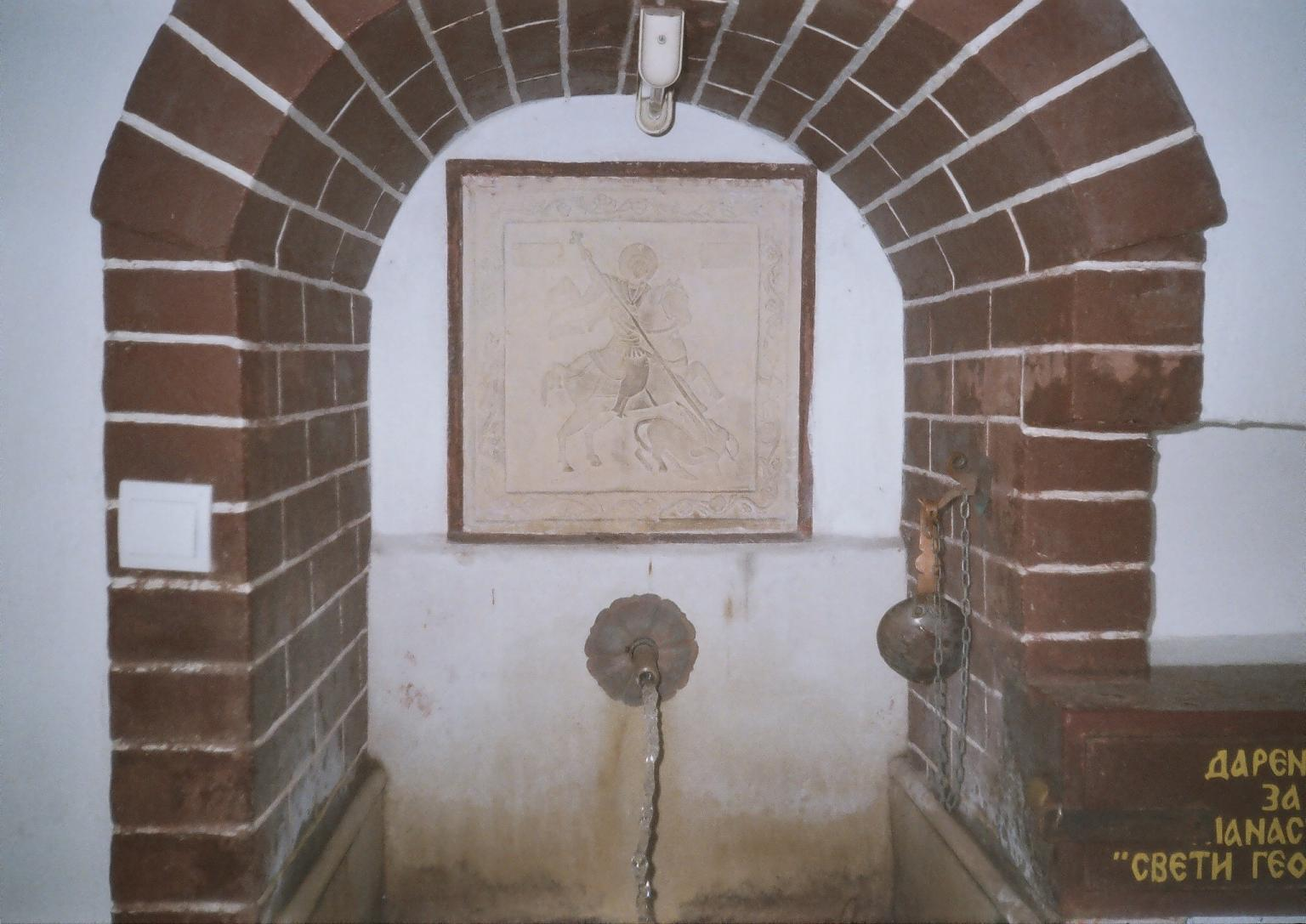 St. George Monastery in Pomorie, Bulgaria - The Ayazmo (holy spring) Picture taken in 2009